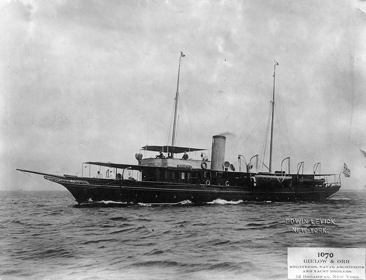 The yacht Arcady prior to her United States Navy service as the patrol vessel USS Arcady (SP-577).